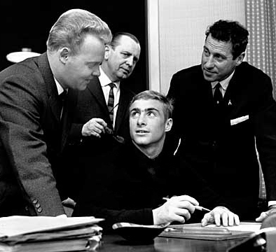 Boxer Tom Bogs signs a professional contract with promoter Mogens Palle. Left-right: Mogens Palle, Børge de Wall, Tom Bogs and father Poul Bogs